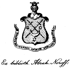 Exlibris of Norov A. S.